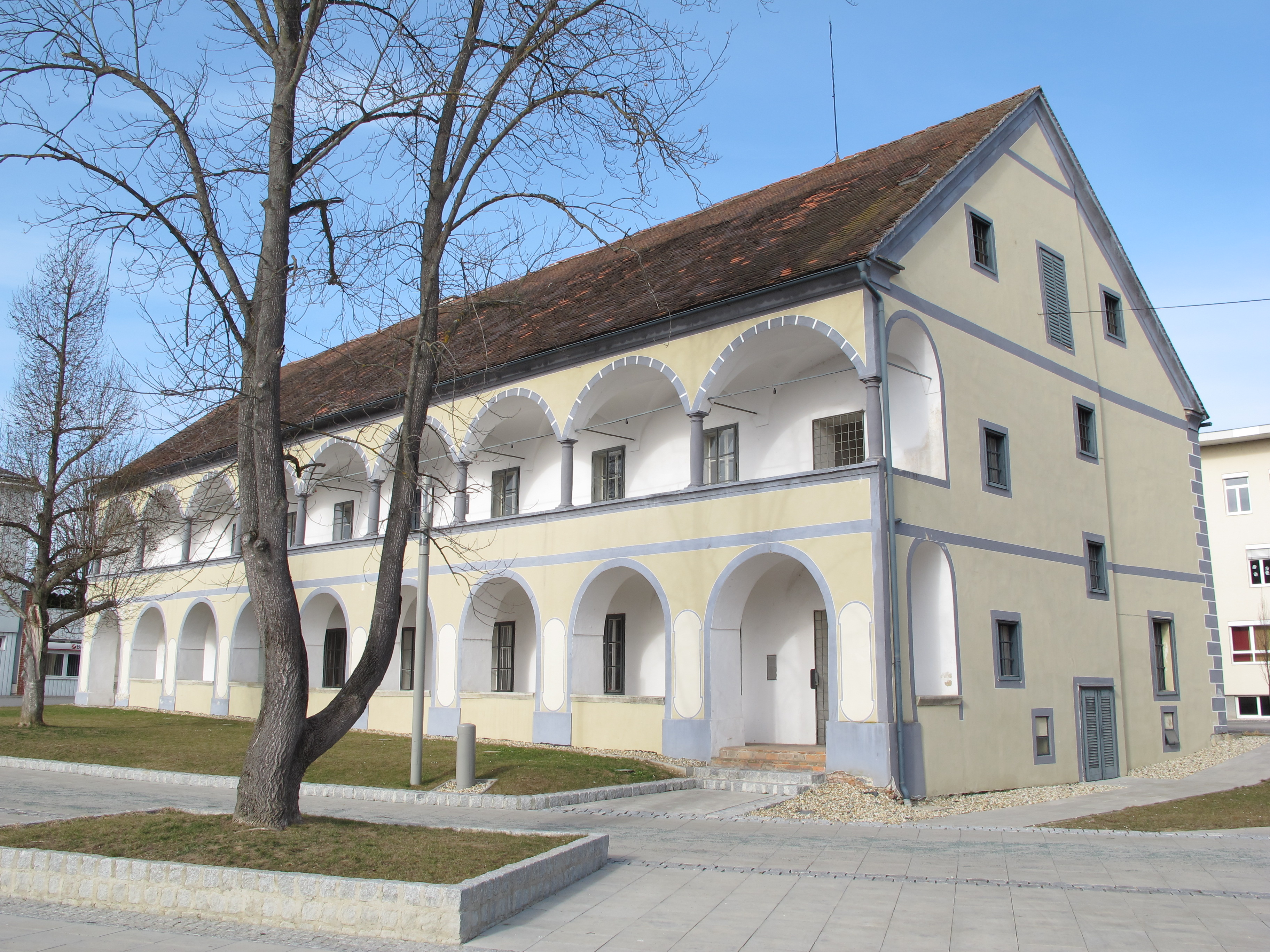 Ehemaliges Kastell Batthyany Stegersbach